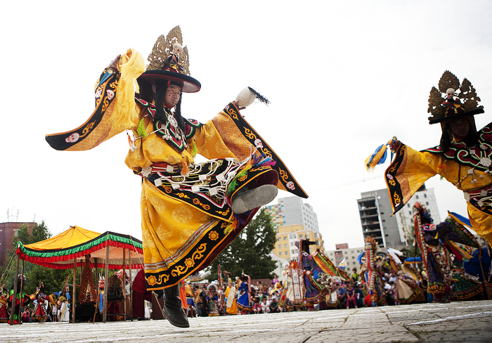 Mongolian monks perform ceremonial dances during a Tsam ceremony at Dashchoilon Monastery in Ulaanbaatar, Mongolia.